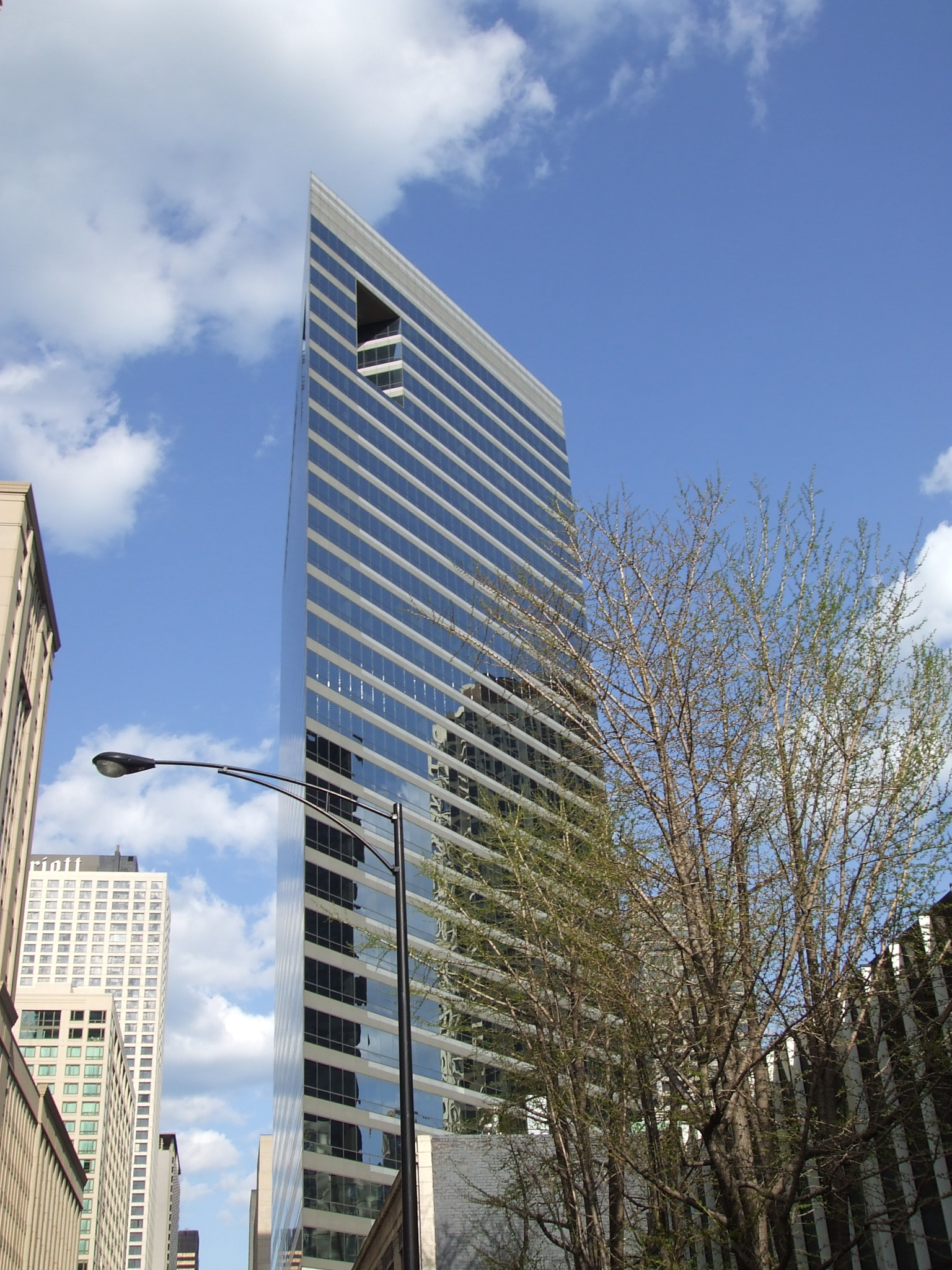 Photo of the American Medical Association headquarters in Chicago taken by User:Pinotgris on April 28, 2007. Architect Kenzo Tange (丹下健三, Tange Kenzō; September 4, 1913 - March 22, 2005) Construction started 1987